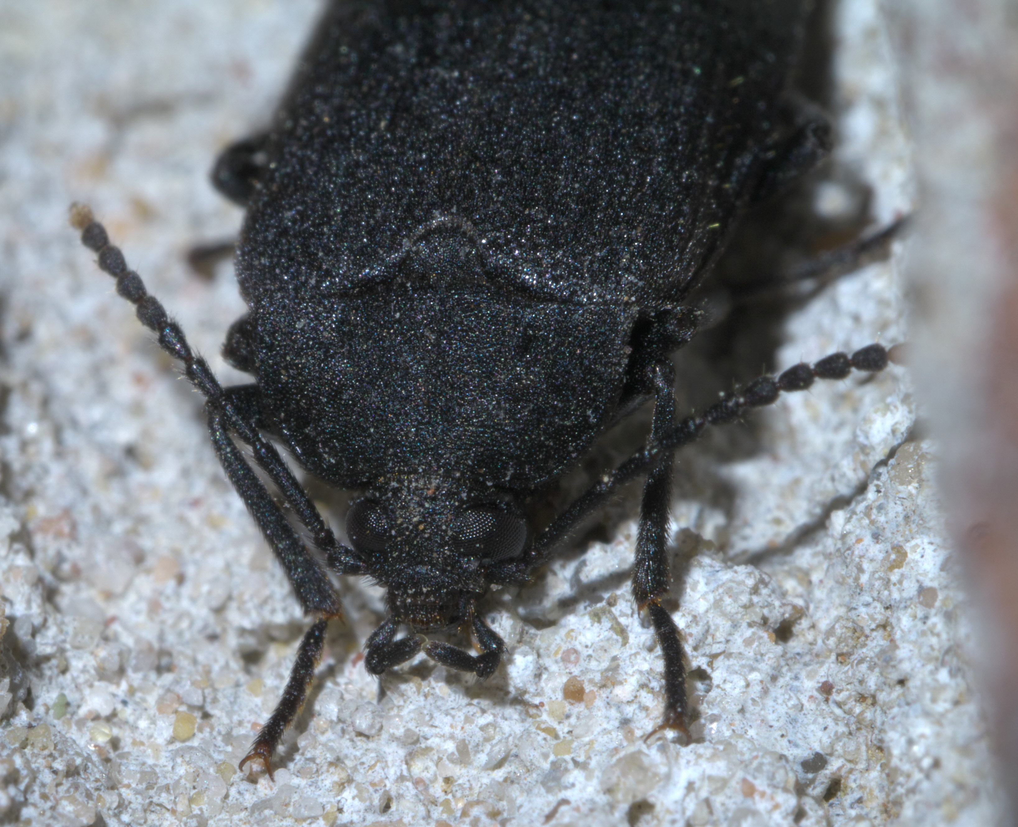 Penthe pimelia, Velvety Bark Beetle, ID Confidence: 90